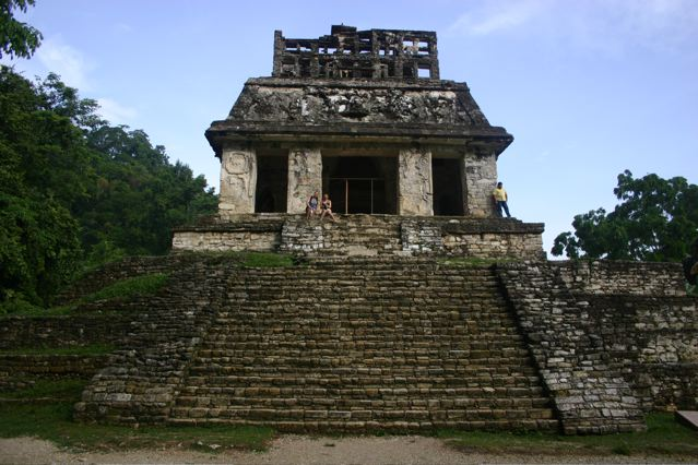 Temple of the Sun